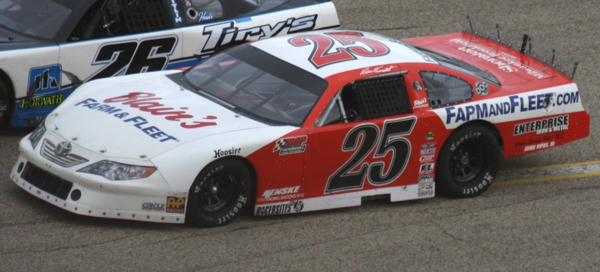 Ross Kenseth in his Super Late Model racing at the 2013 Slinger Nationals.